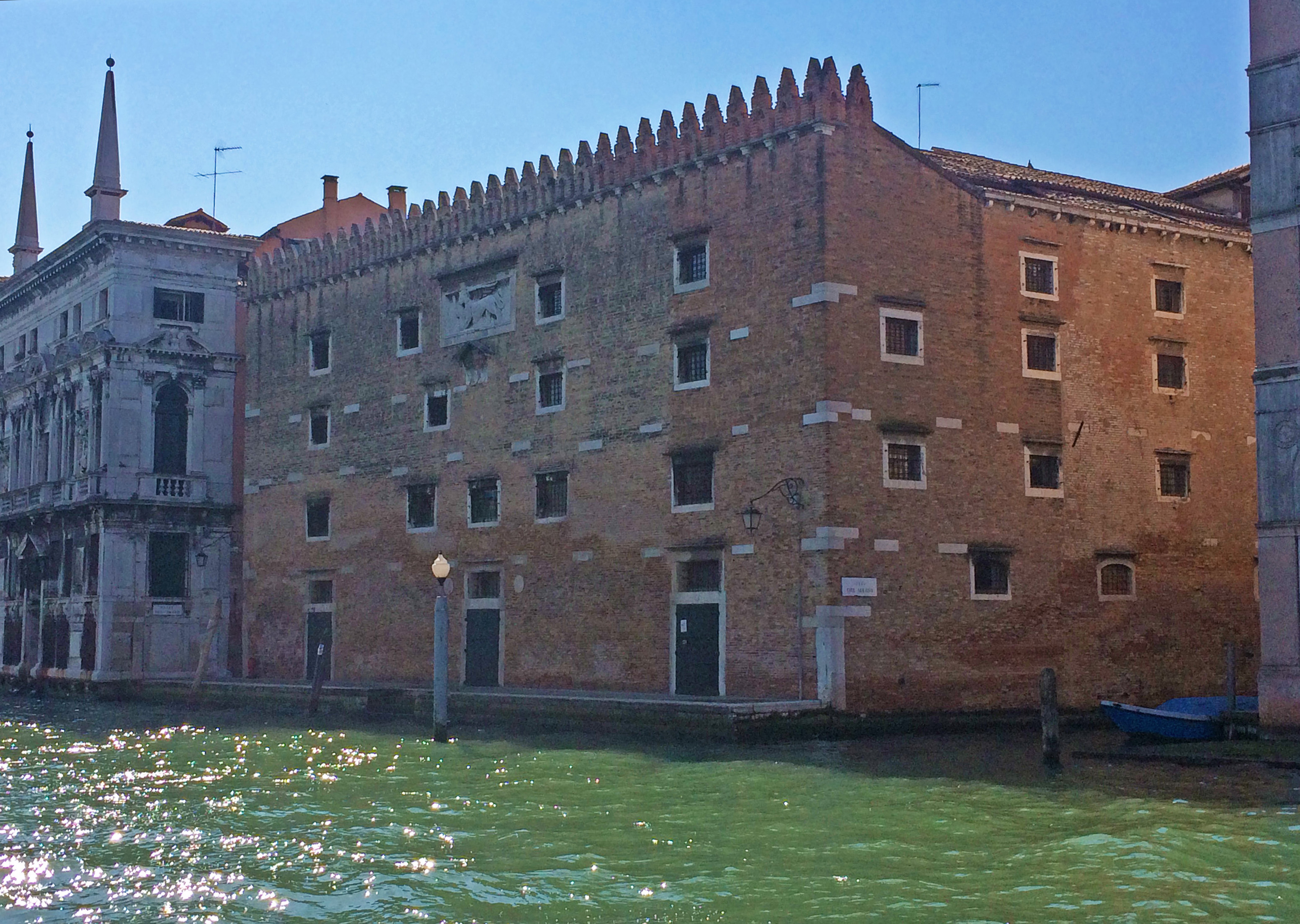 Deposito del megio - Deposito del miglio. Canal Grande Venice